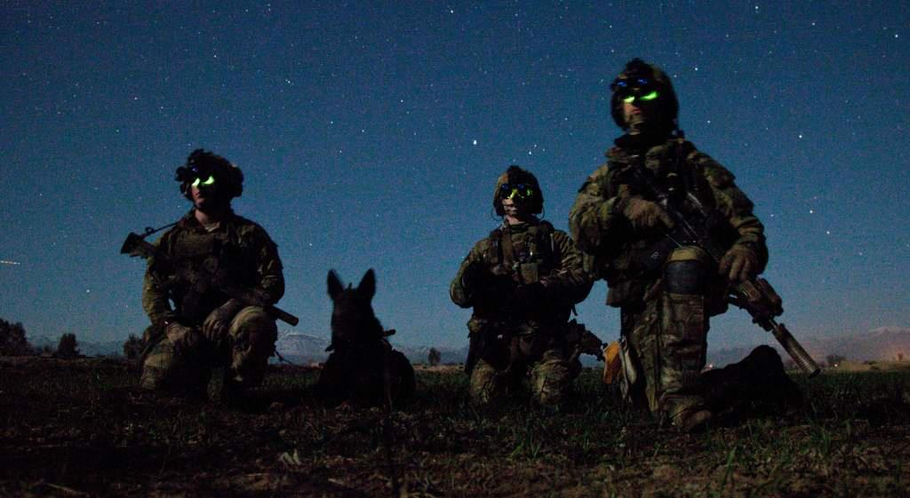 Rangers from Headquarters and Headquarters Company, 3rd Battalion, 75th Ranger Regiment and a multi-purpose canine pause during a nighttime combat mission in Afghanistan. Courtesy U.S. Army.